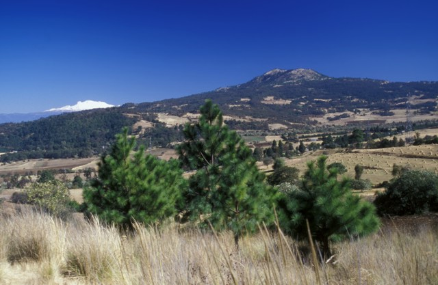 The 3450-m-high Cuauhtzin lava dome (right horizon), capping a low lava shield north of the crest of the Sierra Chichinautzin, was formed between about 7360 and 8225 radiocarbon years ago. Dacitic lava flows and block-and-ash flow deposits surround the dome. Cuauhtzin means "seat of the eagle" in the Nahuatl language. Snow-capped Iztaccihuatl volcano lies on the left horizon.